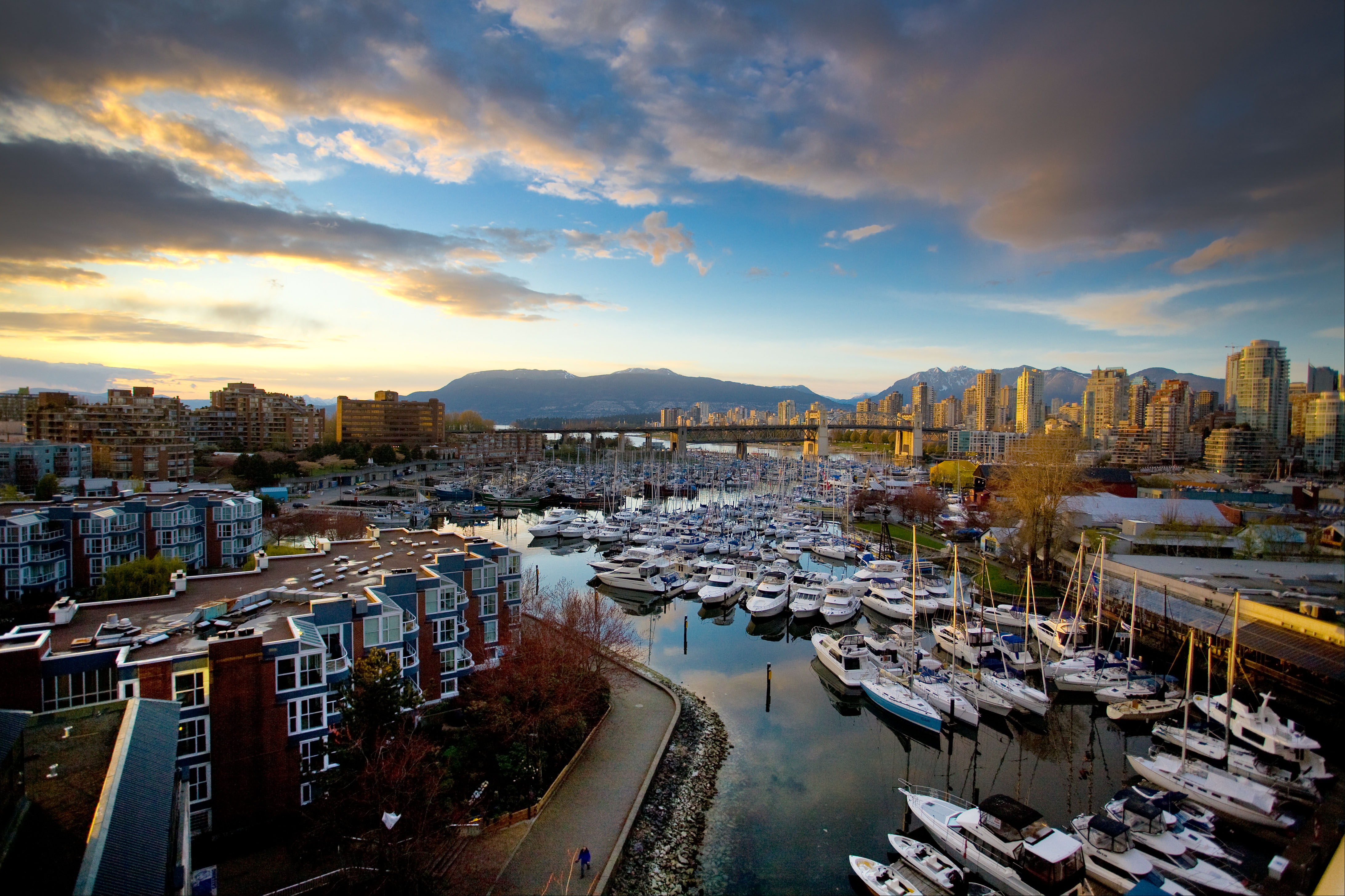 Inspired by Luis' original Vancouver Cityscape